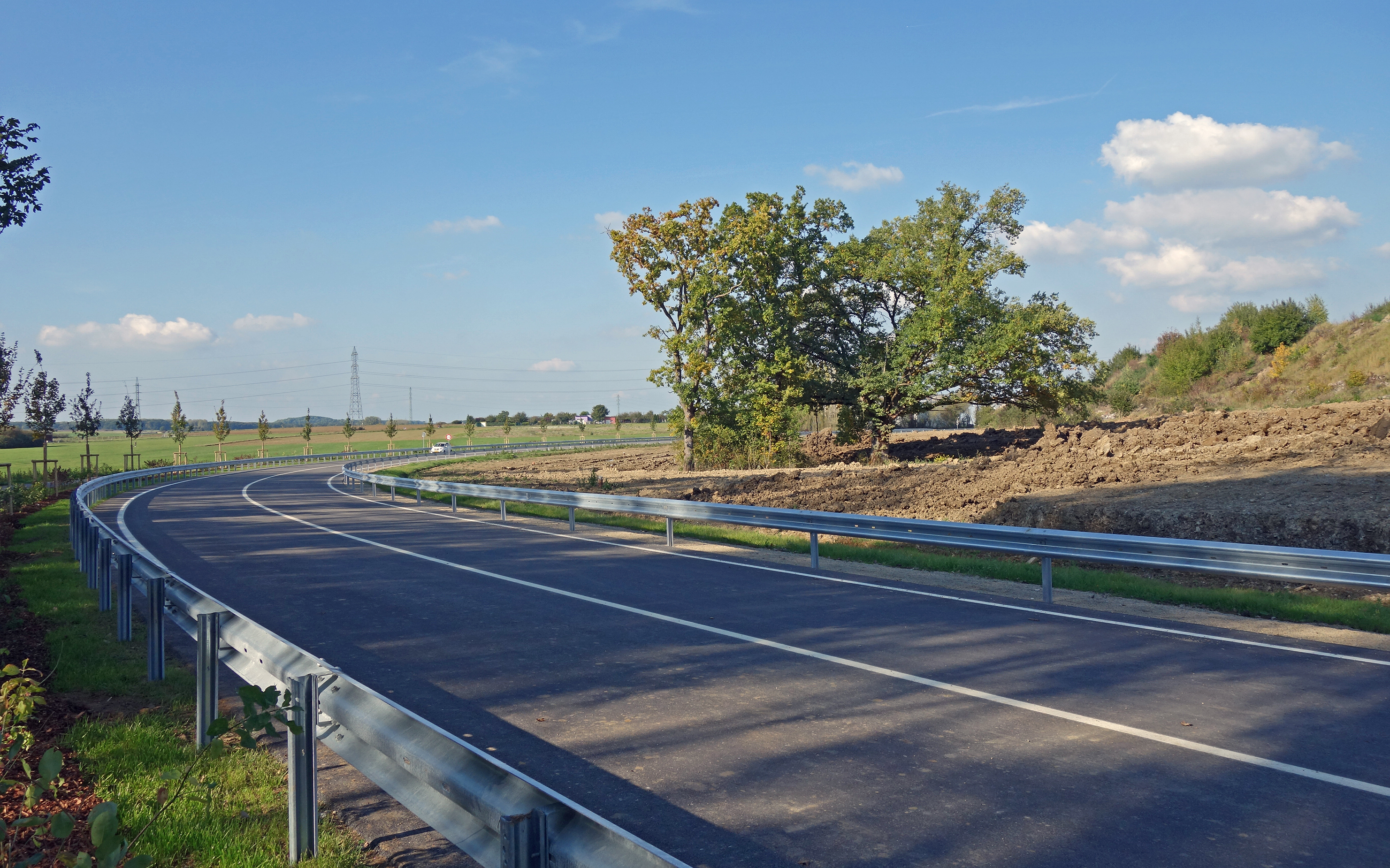 The new part of the CR106 built after the landslide of 2014 between Esch-sur-Alzette and Mondercange.